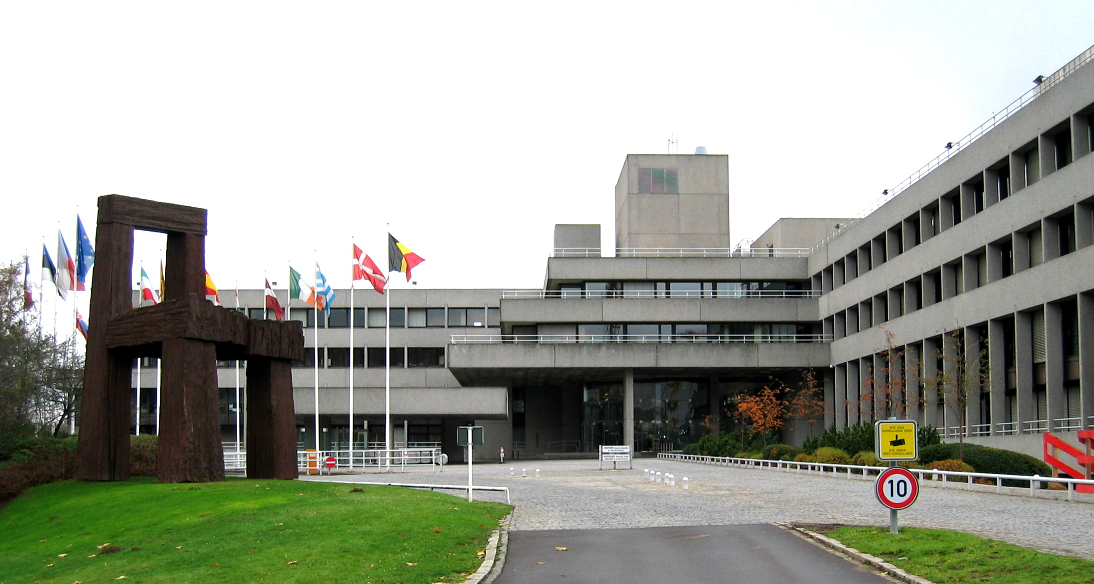 European Investment Bank headquarters, East building entrance. Visible on the left is the sculpture 'Stuhl' (chair) by Magdalena Jetelová.